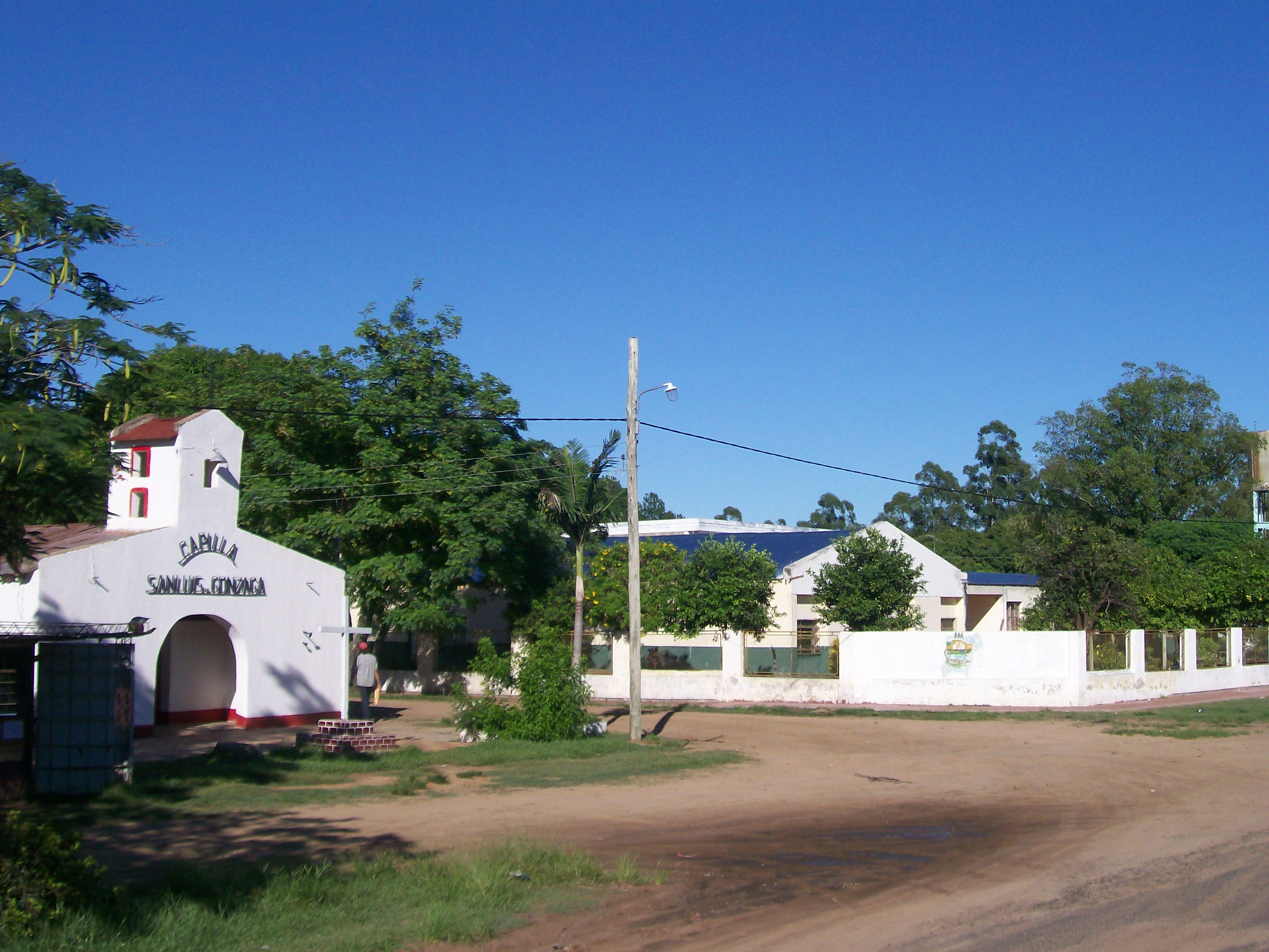 Chapel and school in Villa Olivari (Corrientes Province, Argentina) by National Route 12.